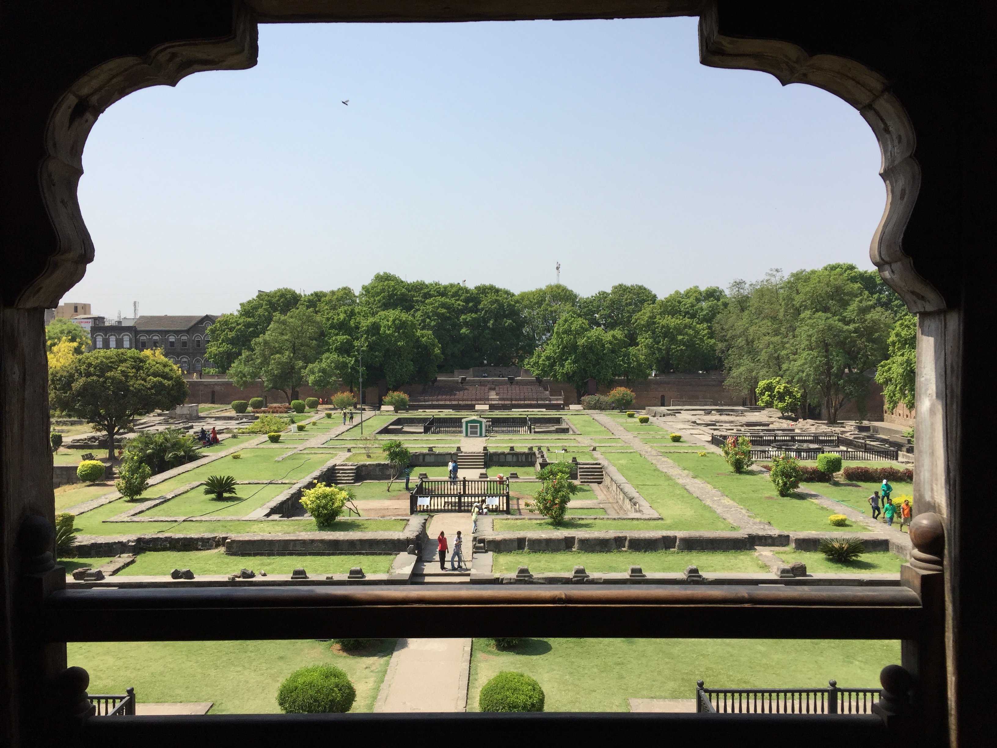 Shaniwarwada Pune